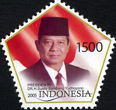 Stamps of Indonesia